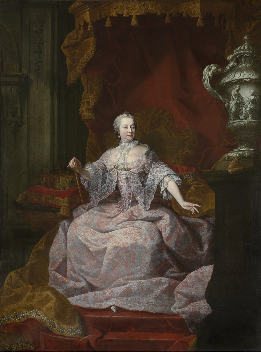 Portret van keizerin Maria Theresia (Matthias de Visch, 1749); collection: Musea Brugge - Groeningemuseum